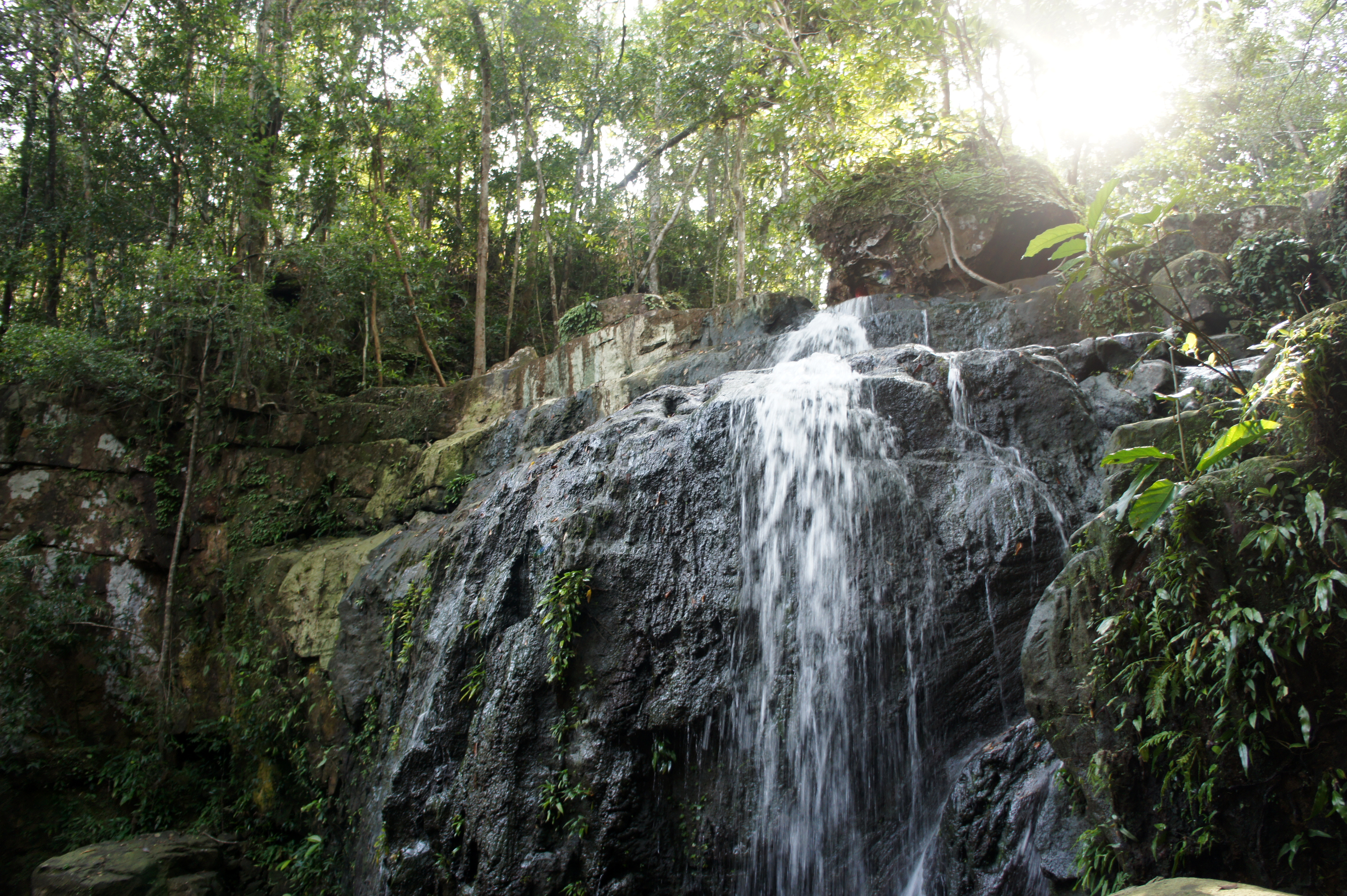 A Photo that show Koh Rong's largest waterfall